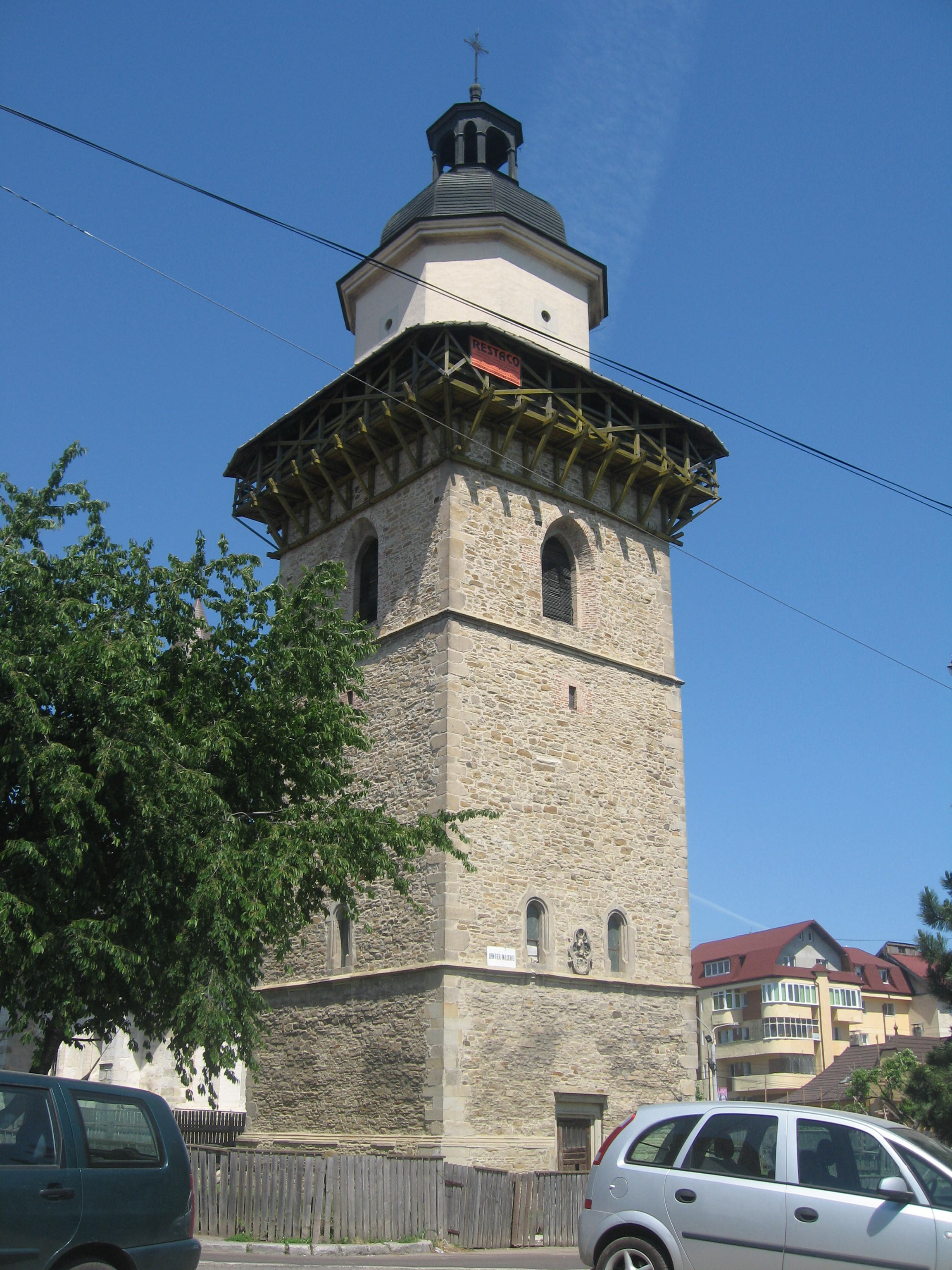 St. Demetrius Church in Suceava - The Tower of Alexandru Lăpuşneanu.